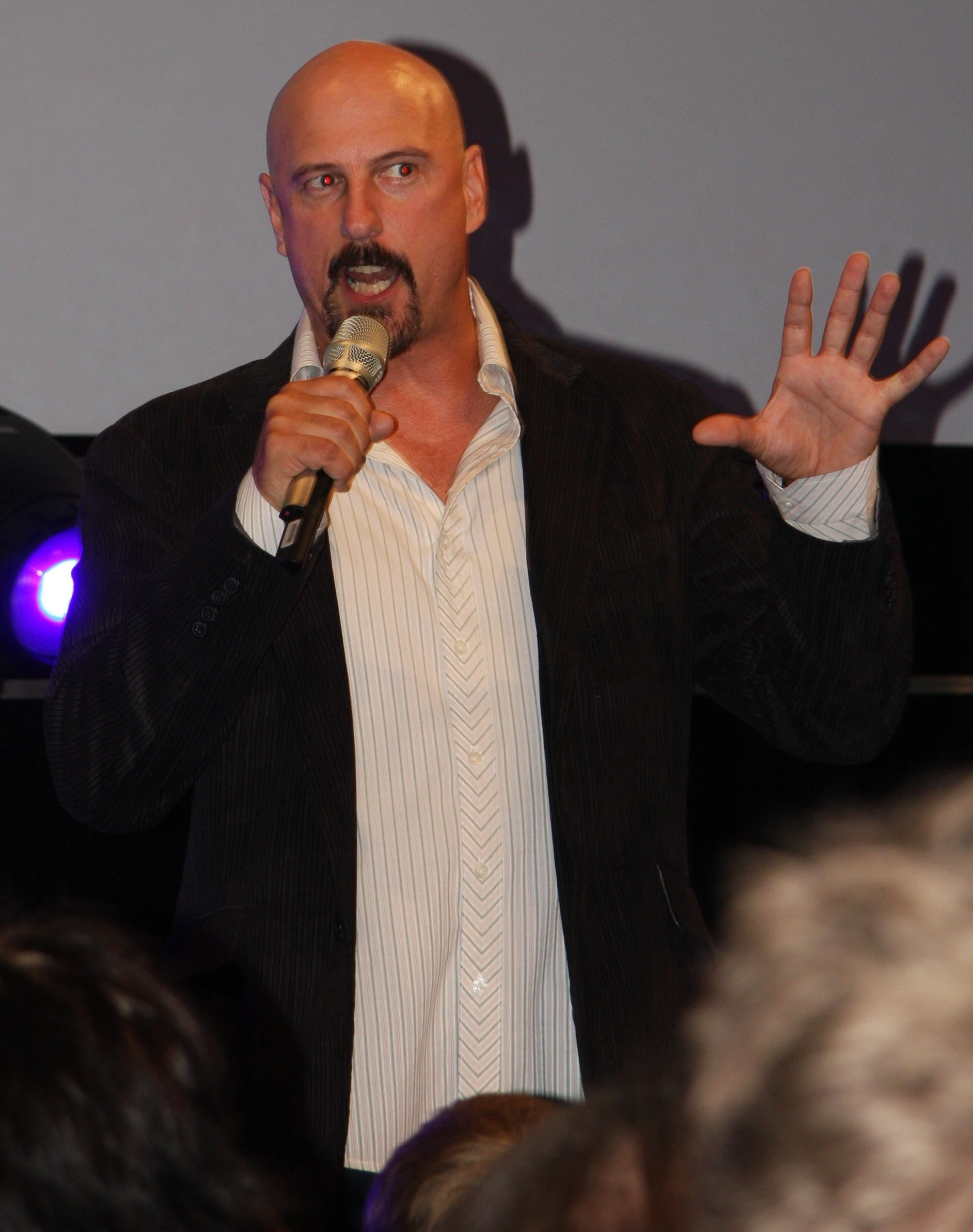 Joseph D. Kucan at the Gamescom 2009 presenting Command & Conquer 4: Tiberian Twilight